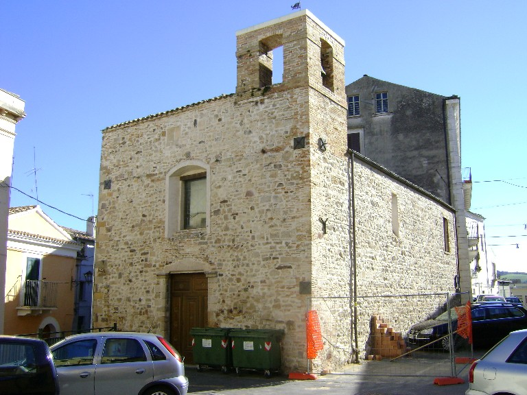 The church of St. Pietro to Atessa